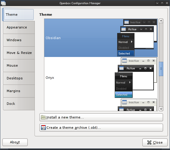 obconf version 2.0.3 from Debian squeeze. GTK theme: Clearlooks, Icons: gnome, Openbox theme: Obsidian, Fonts: DejaVu sans and PF Ronda Seven.